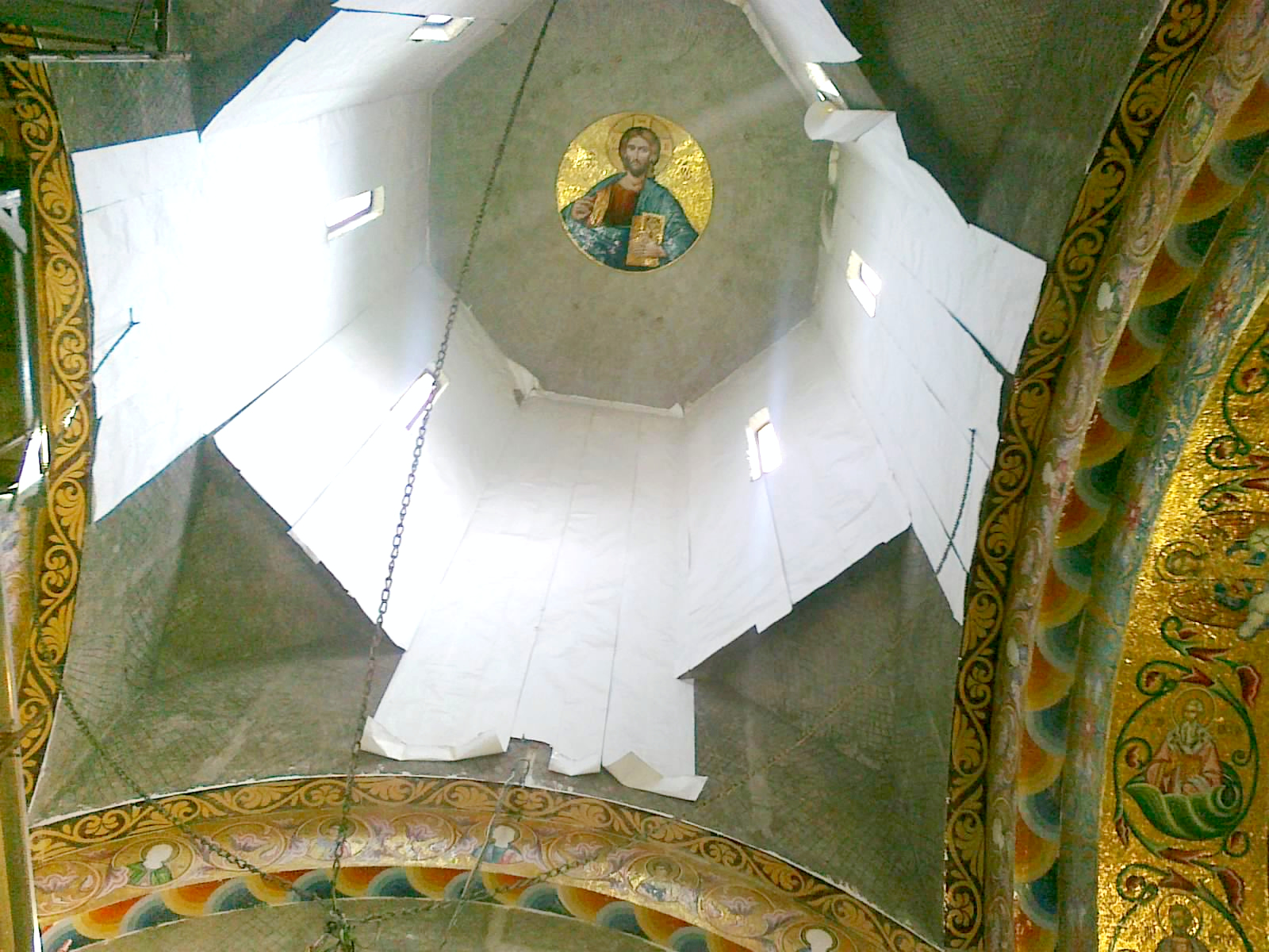 The church interior 01